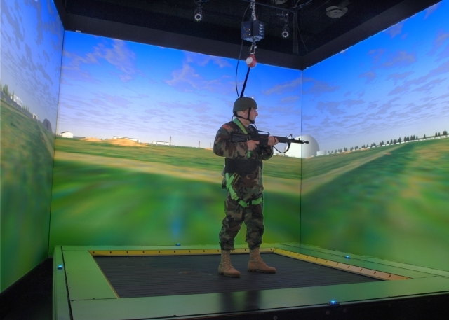 Soldier on omni-directional treadmill, inside of CAVE environment